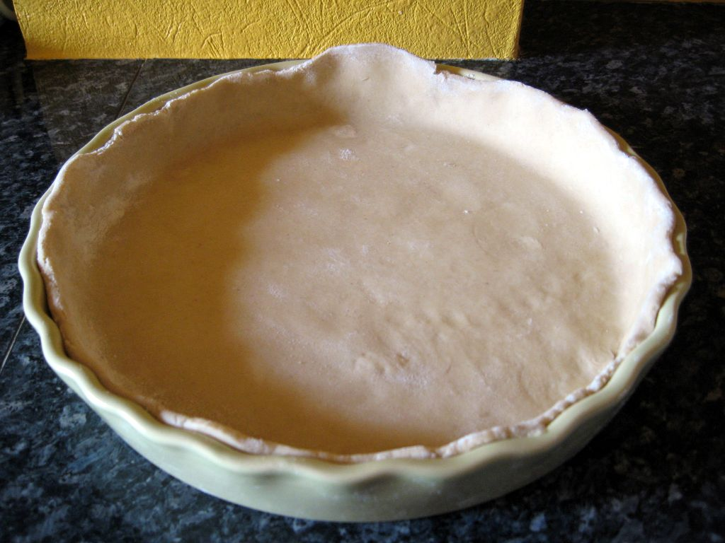 Shortcrust pastry recipe, step 6